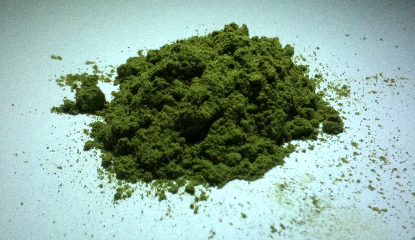 Two packages of Funmatsucha. A type of instant tea. Brandname Shin-type Sencha.